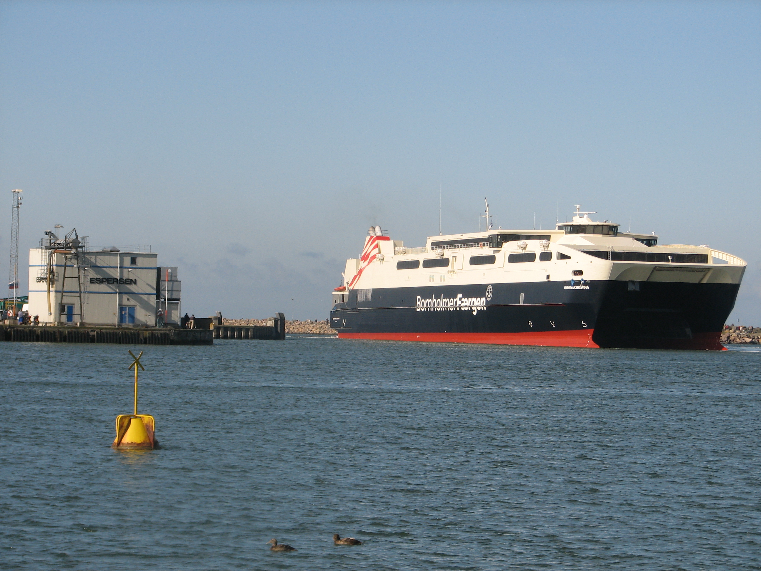 Leonora Christina in the harbour of Rønne